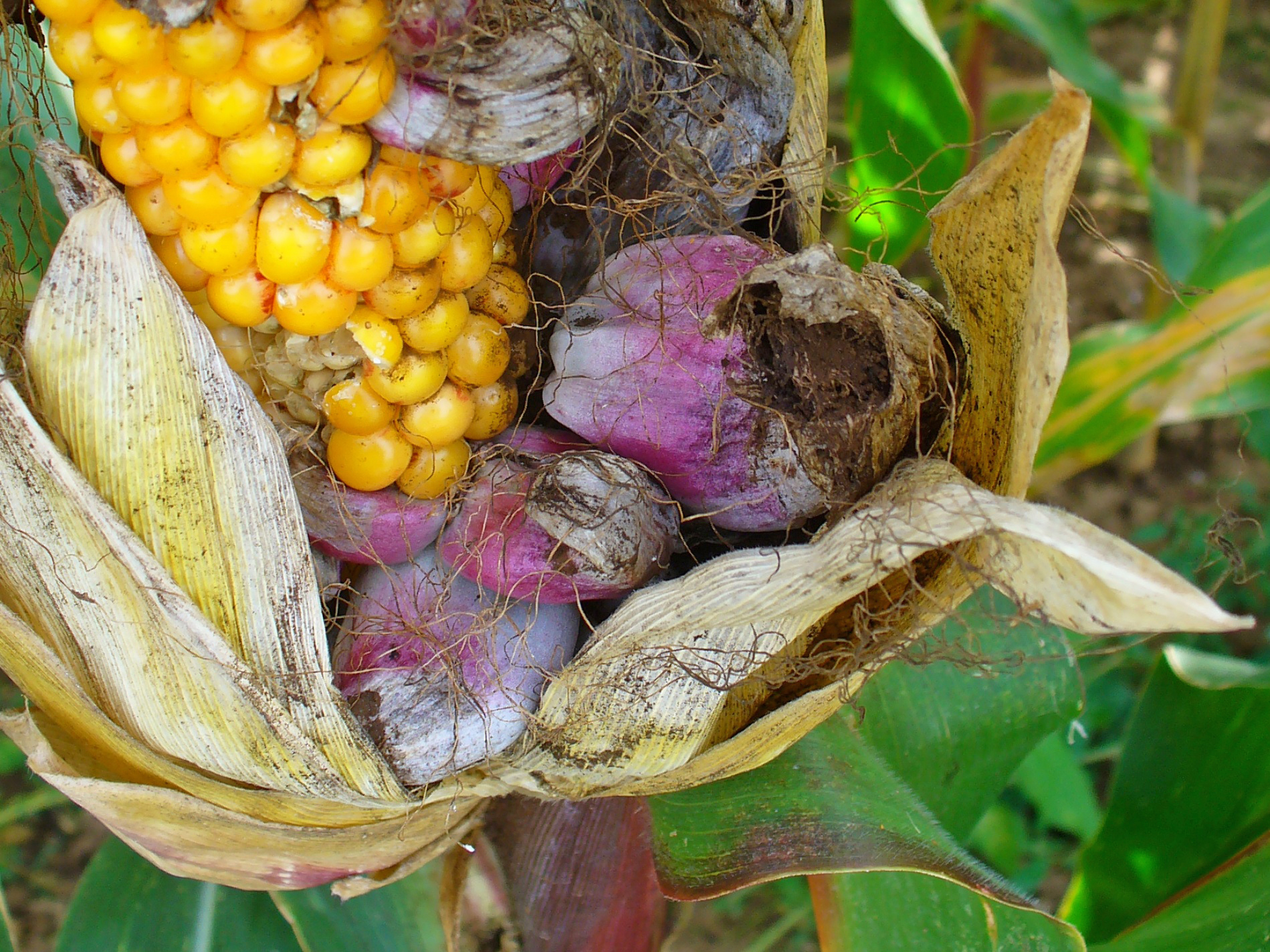 Ustilago maydis, Ustilaginaceae, Corn smut, galls. Karlsruhe, Germany.